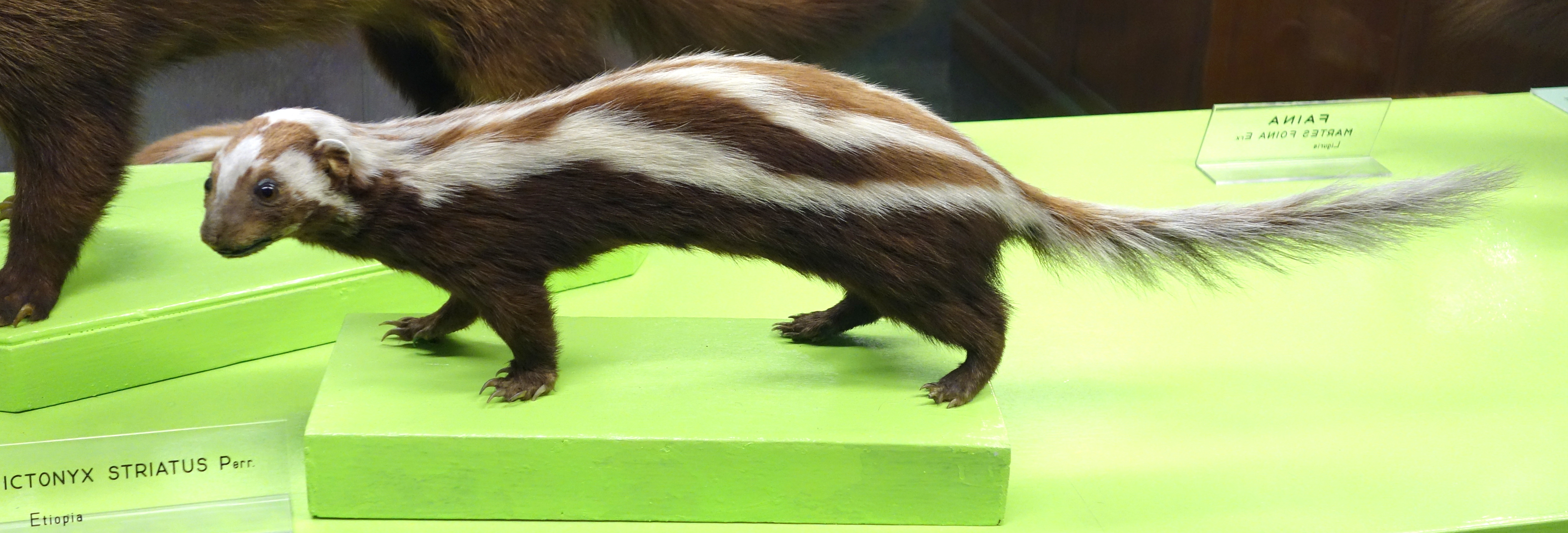 Exhibit in the Museo Civico di Storia Naturale di Genova, Via Brigata Liguria, 9, 16121, Genoa, Italy.